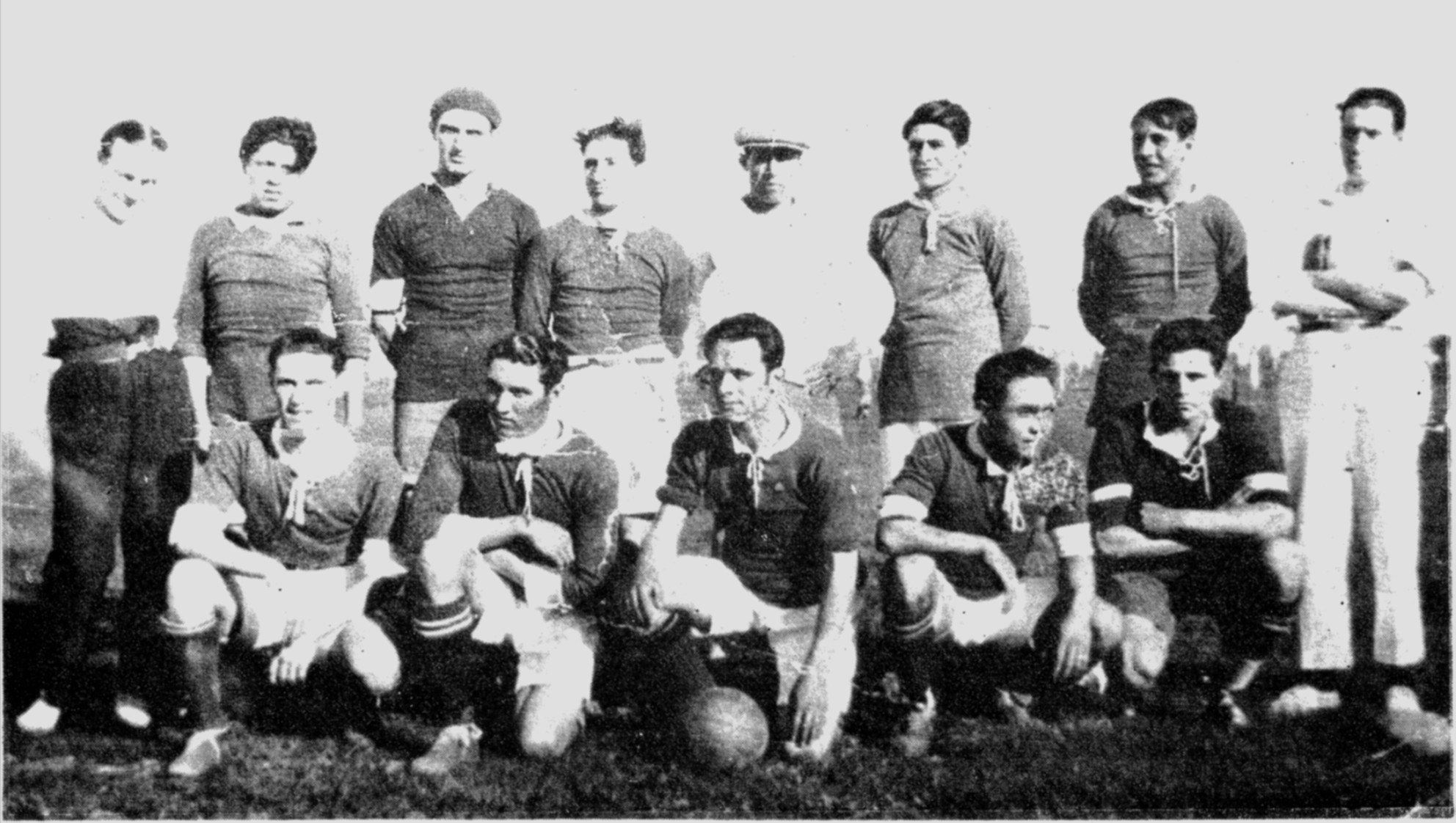 A football squad of Junín's Club Atlético Buenos Aires al Pacífico (mostly known for its acronym "BAP").